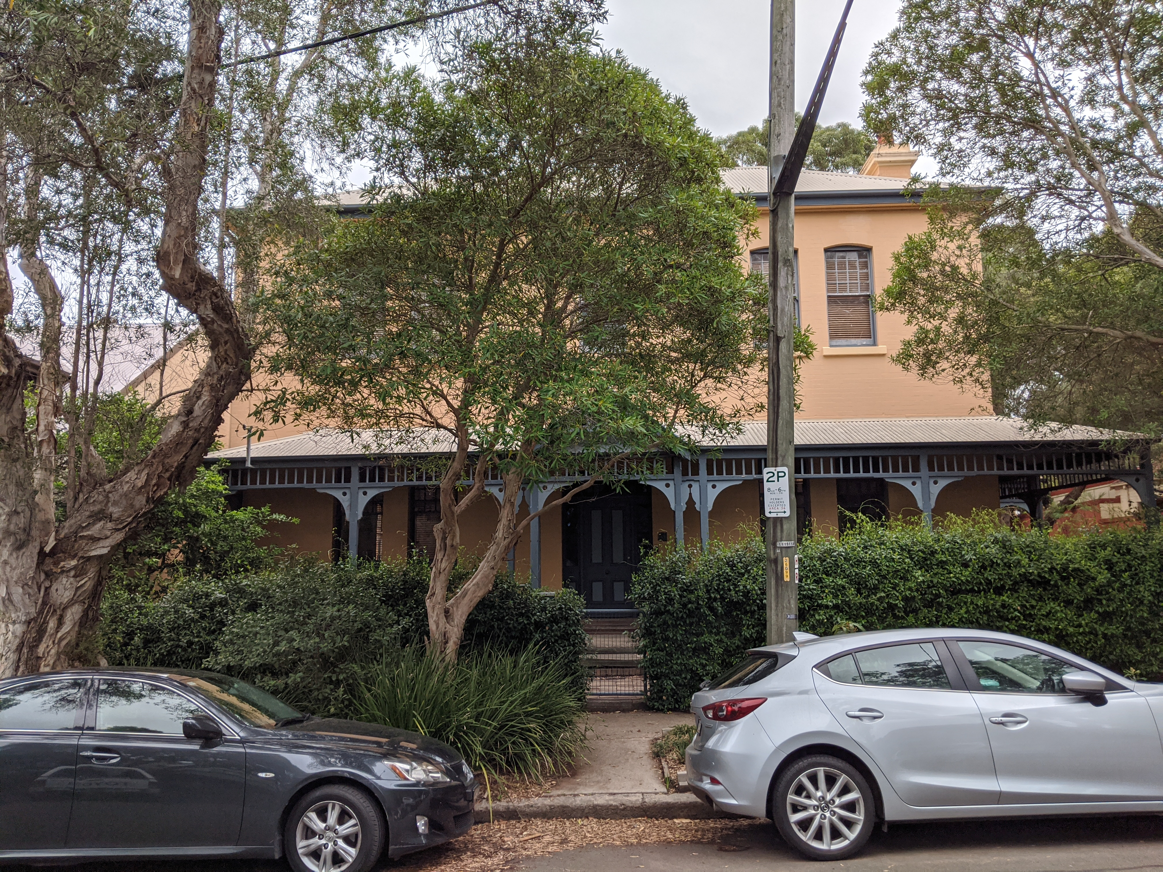 Enginemans Resthouse, 39 Branding Street, Alexandria, New South Waels